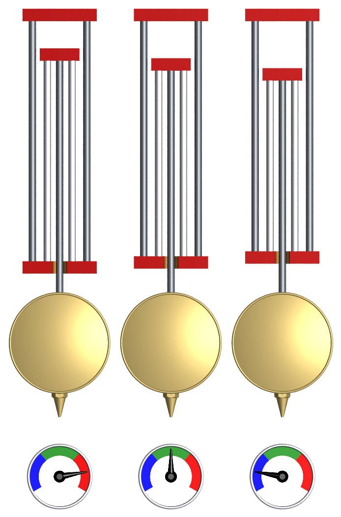 Giridon pendulum